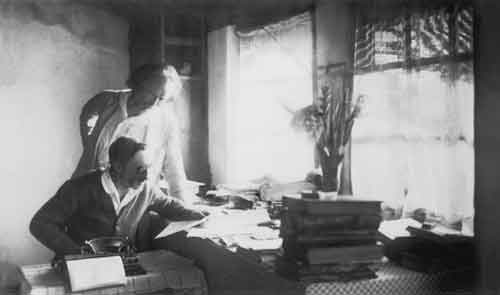 Russian writers K. Balmont and I. Smelev in 1926